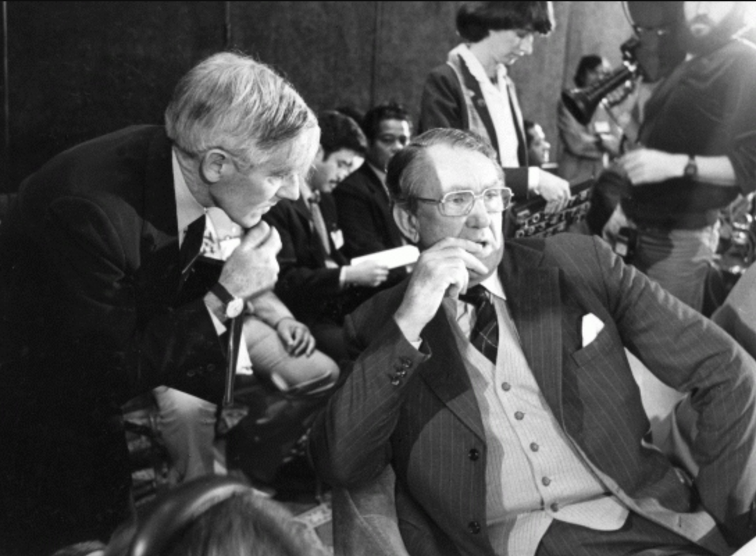 Prime Minister Fraser and Foreign Minister Street at the 13th South Pacific Forum